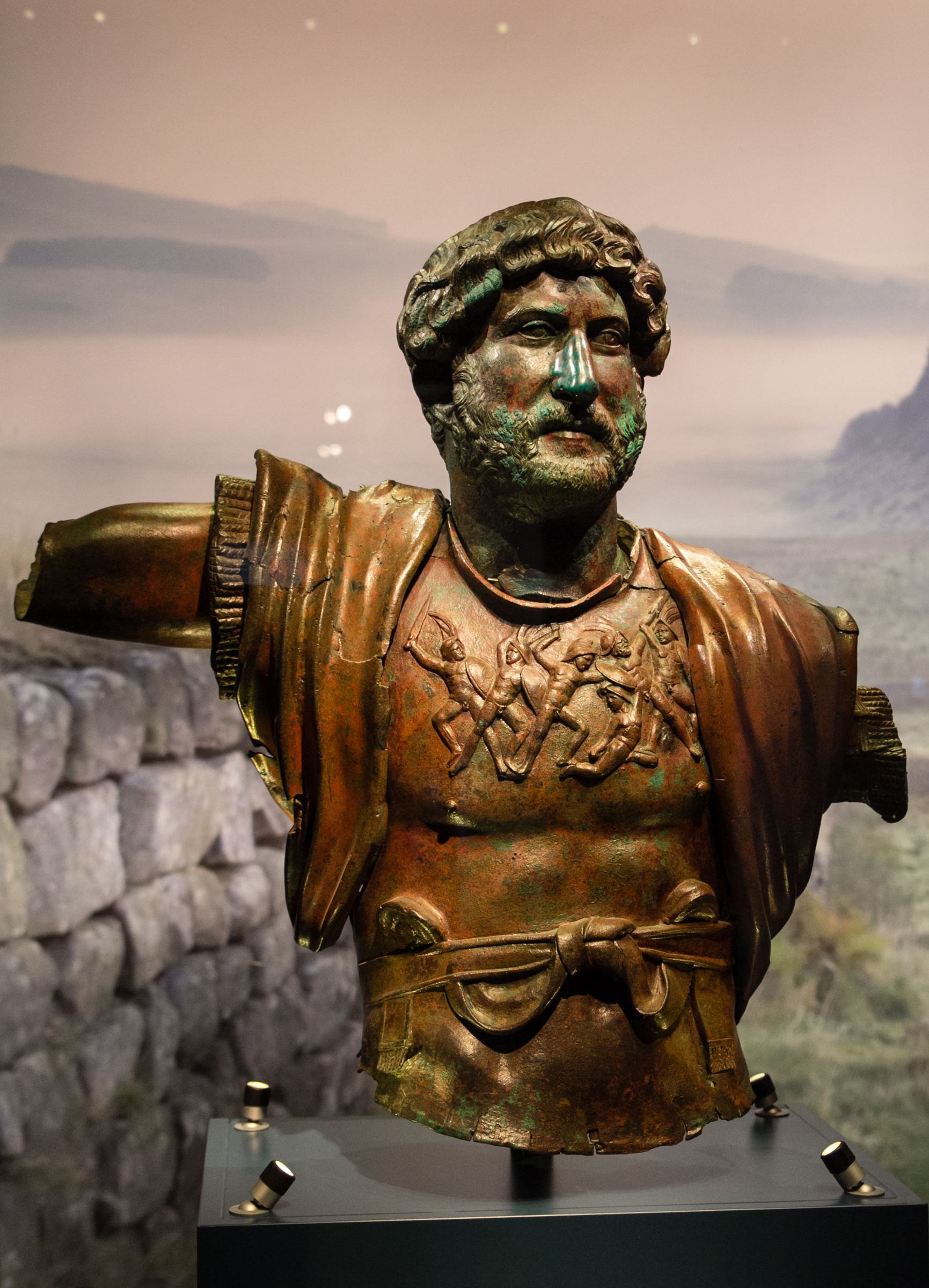 Bust of Hadrianus from Tel Shalem, on display at the Israel Museum in Jerusalem